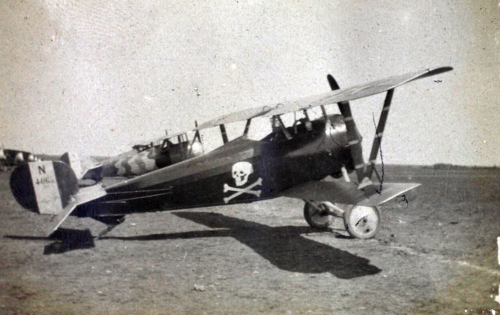 Nieuport 24bis with fancy paintjob